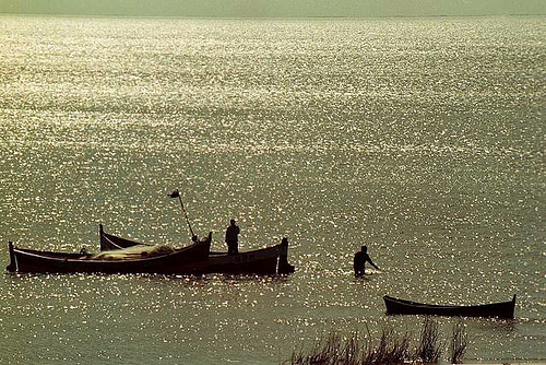 Lagoa Mirim near Jaguarão, a large estuarine lagoon which extends from southern Rio Grande do Sul state in Brazil into eastern Uruguay.